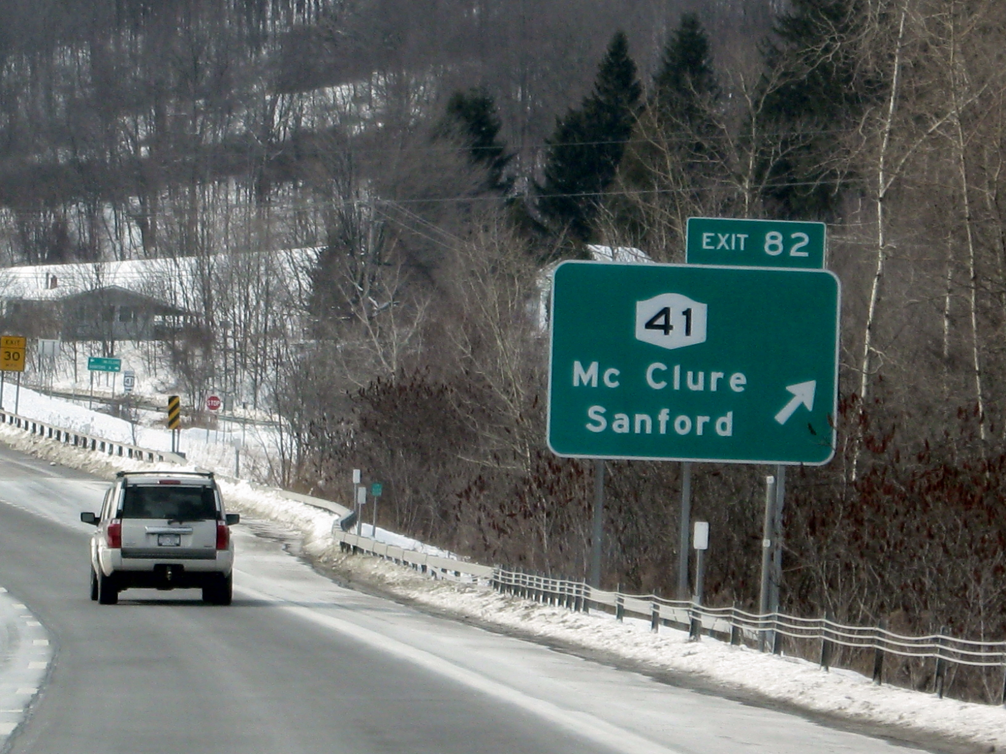 New York State Route 41 begins at New York State Route 17 exit 82 — near Sanford, in Broome County, central New York.